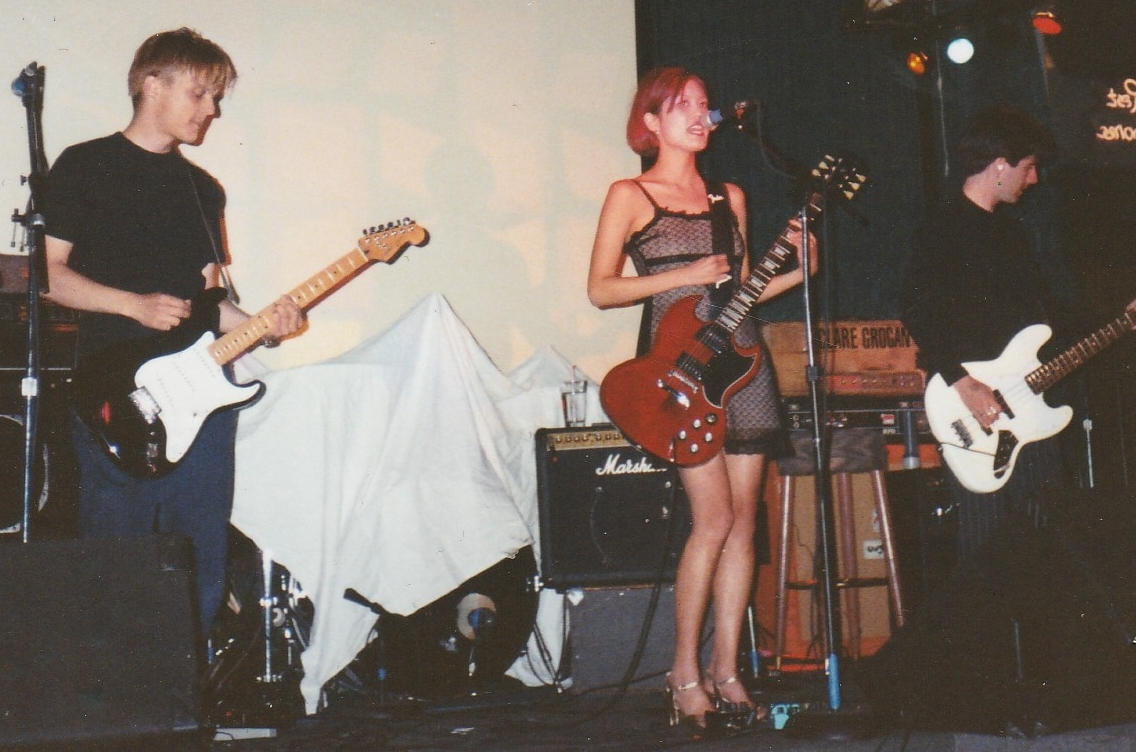 Chicklet performing live in Los Angeles. Julie Park, Daniel Barida